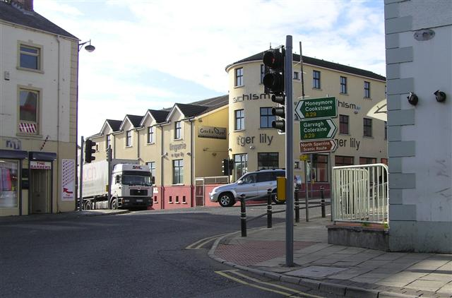 Maghera Town Centre There is a useful set of traffic lights recently installed at the staggered junction on the main street, but as I was about to move off after getting the green light, two large lorries jumped the lights and passed across my path.